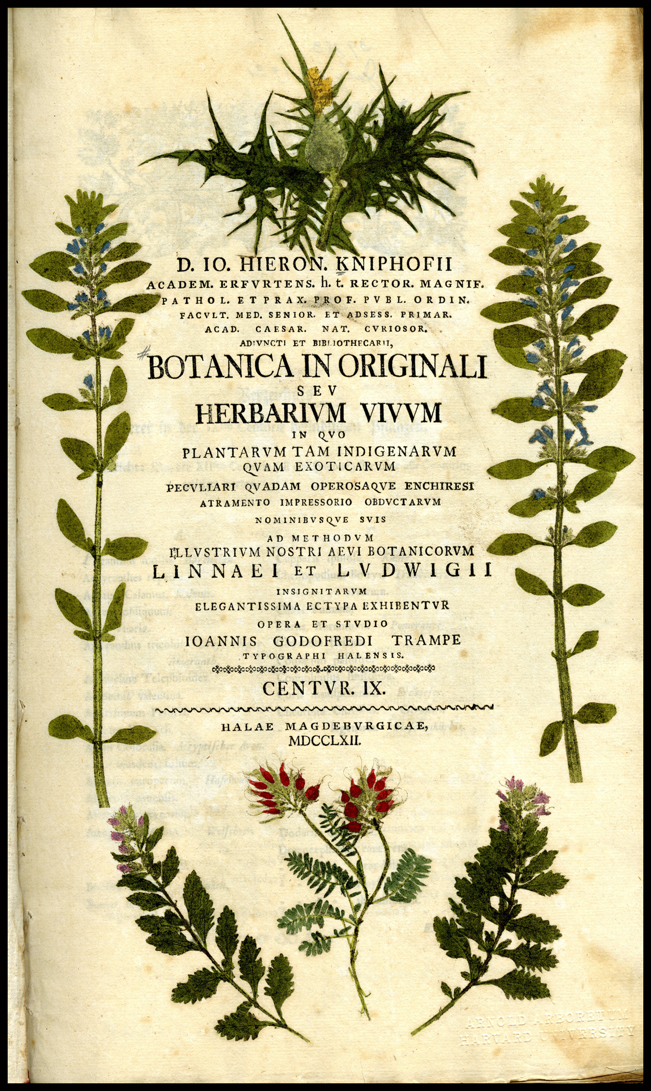 1759, Johann Hieronymus Kniphof (1704-1763). Botanica in Originali, seu Herbarium Vivum, in quo plantarum tam indigenarum quam exoticarum peculiari quadam operosaque enchiresi atramento impressorio obductarum nominibusqve suis ad methodum illustrivm nostri aevi botanicorum Linnaei et Ludwigii insignitarum elegantissima ectypa exhibentur / opera et studio Ioannis Godofredi Trampe, typographi halensis. Centvr. I [-XII].Halae Magdeburgicae : apud Joannis Godofredi Trampe, 1758-1764.